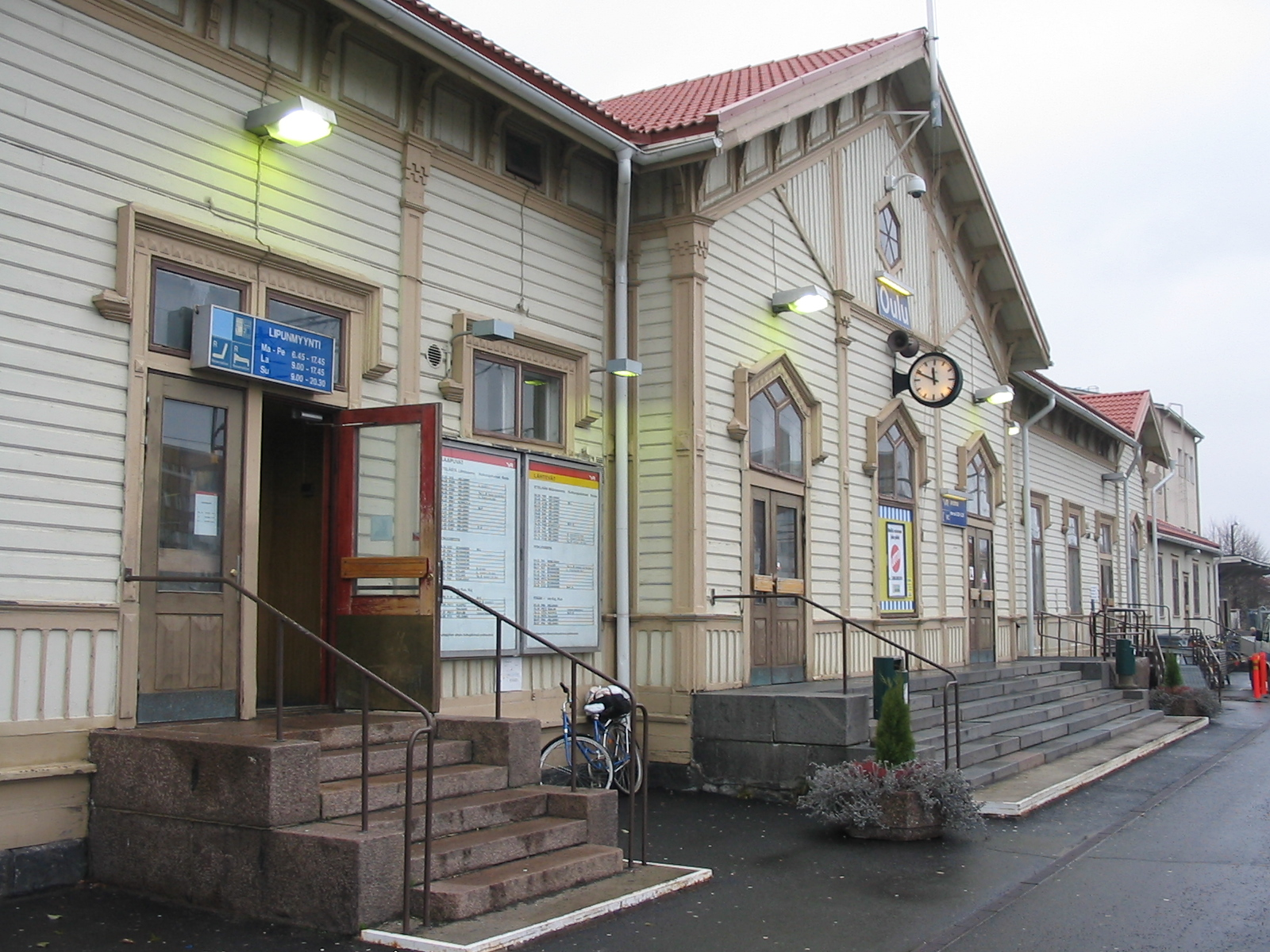 The Railway Station in Oulu, Finland